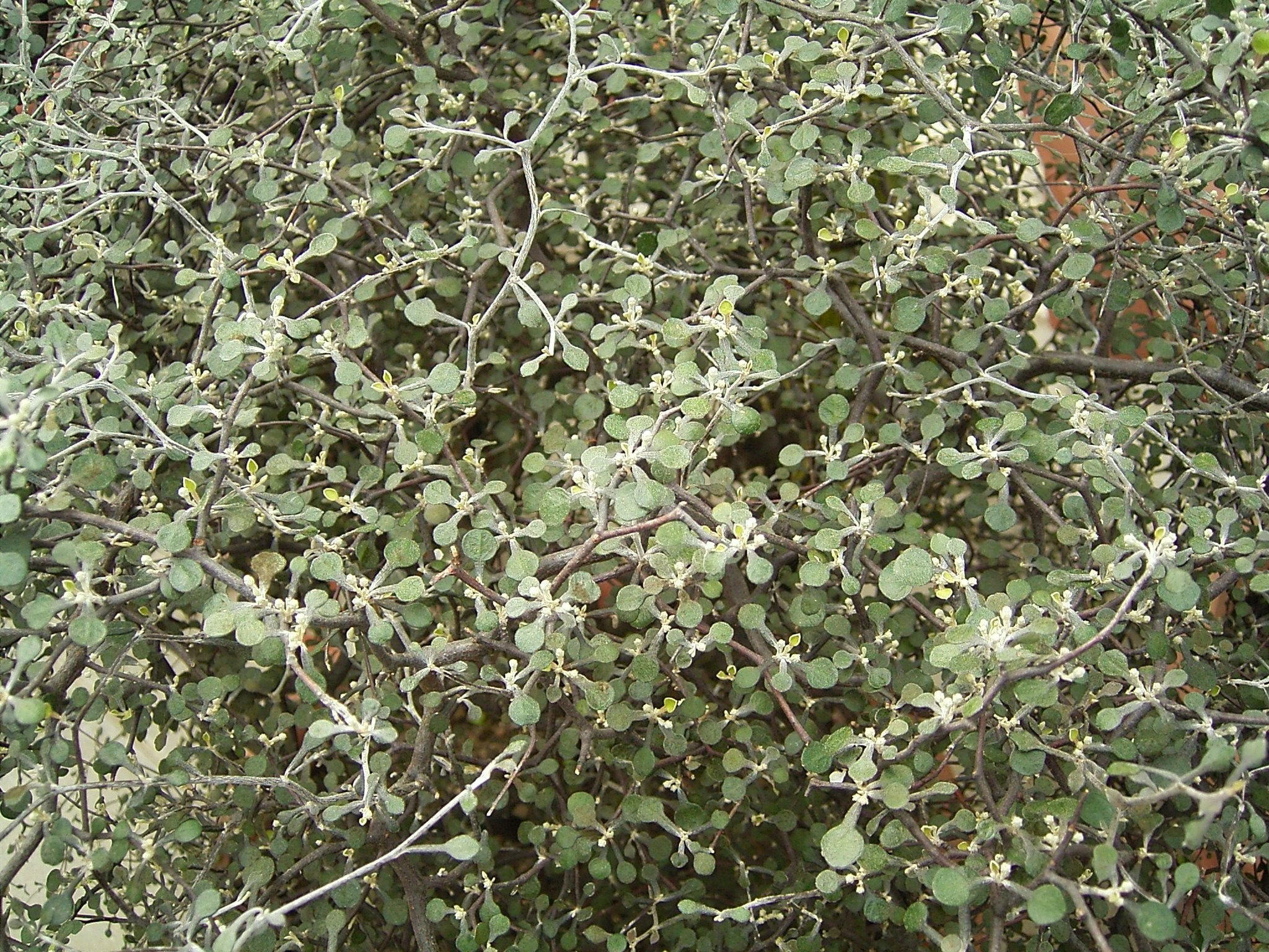 Corokia cotoneaster Raoul (1844)